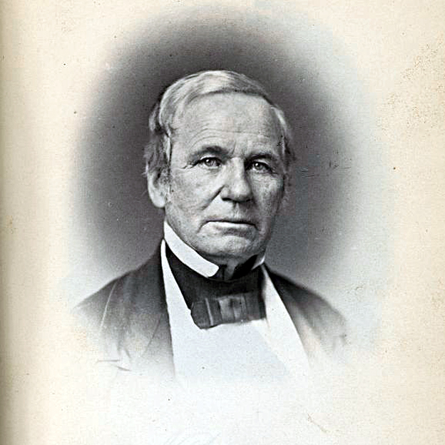 James Lisle Gillis, US Representative from Pennsylvania